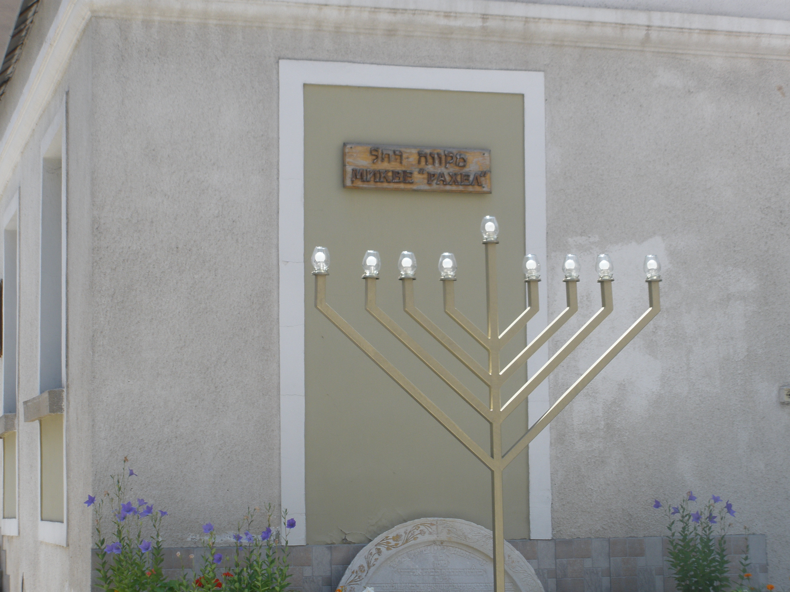 The Mikveh near the Synagogue in Sofia . Credit: Courtesy of Yossi Nevo .